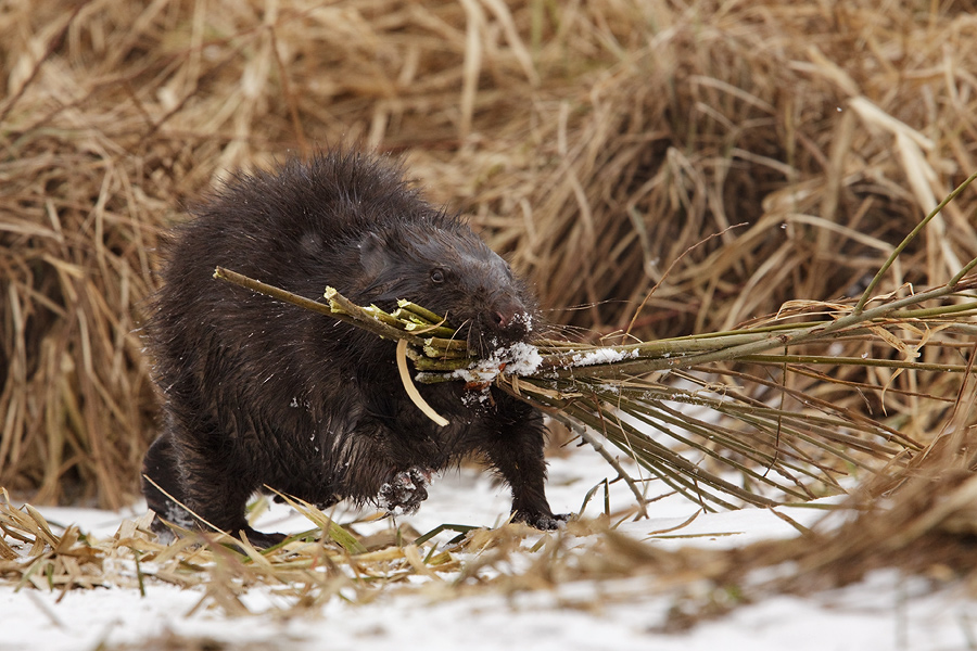 Eurasian beaver (Castor fiber vistulanus); Narewka river, Białowieża, Poland